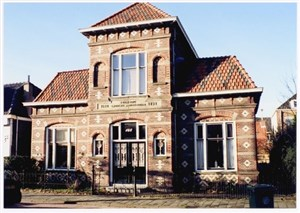 Provenhuis Laurens van Oosthoorn in Alkmaar